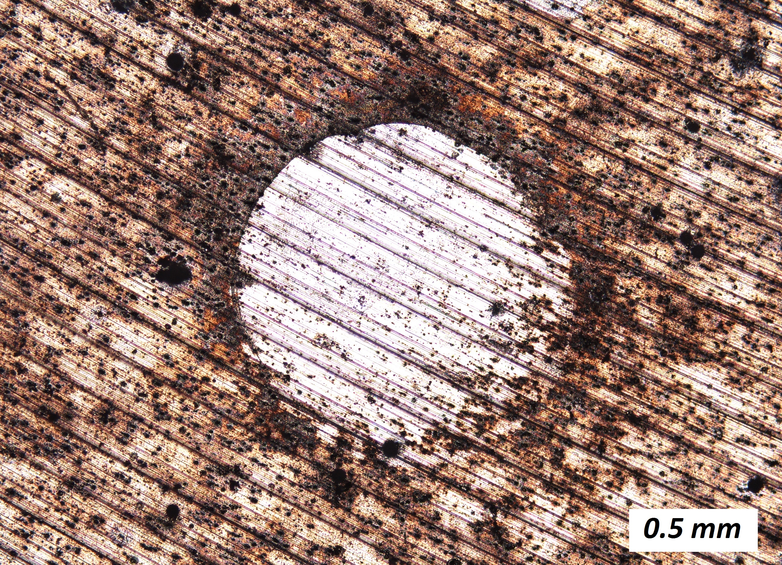 Corrosion is the degradation of a material due to the environment and it affects our daily life. While in some cases the problem is only aesthetic (dulling of jewelery), the corrosion of duralumin can lead to disasters as this material is often used in the construction of airplane parts. The image of duralumin is taken after a short immersion in salt water, revealing deep pits reaching into the depths of the material. The black spots are corrosion marks. The bright area in the center is not a hole, but a less affected area that accelerates the electrochemical corrosion of the remainder. Such deep tunnels however may lead to the materials unexpected failure and therefore correct corrosion prevention methods need to be applied.